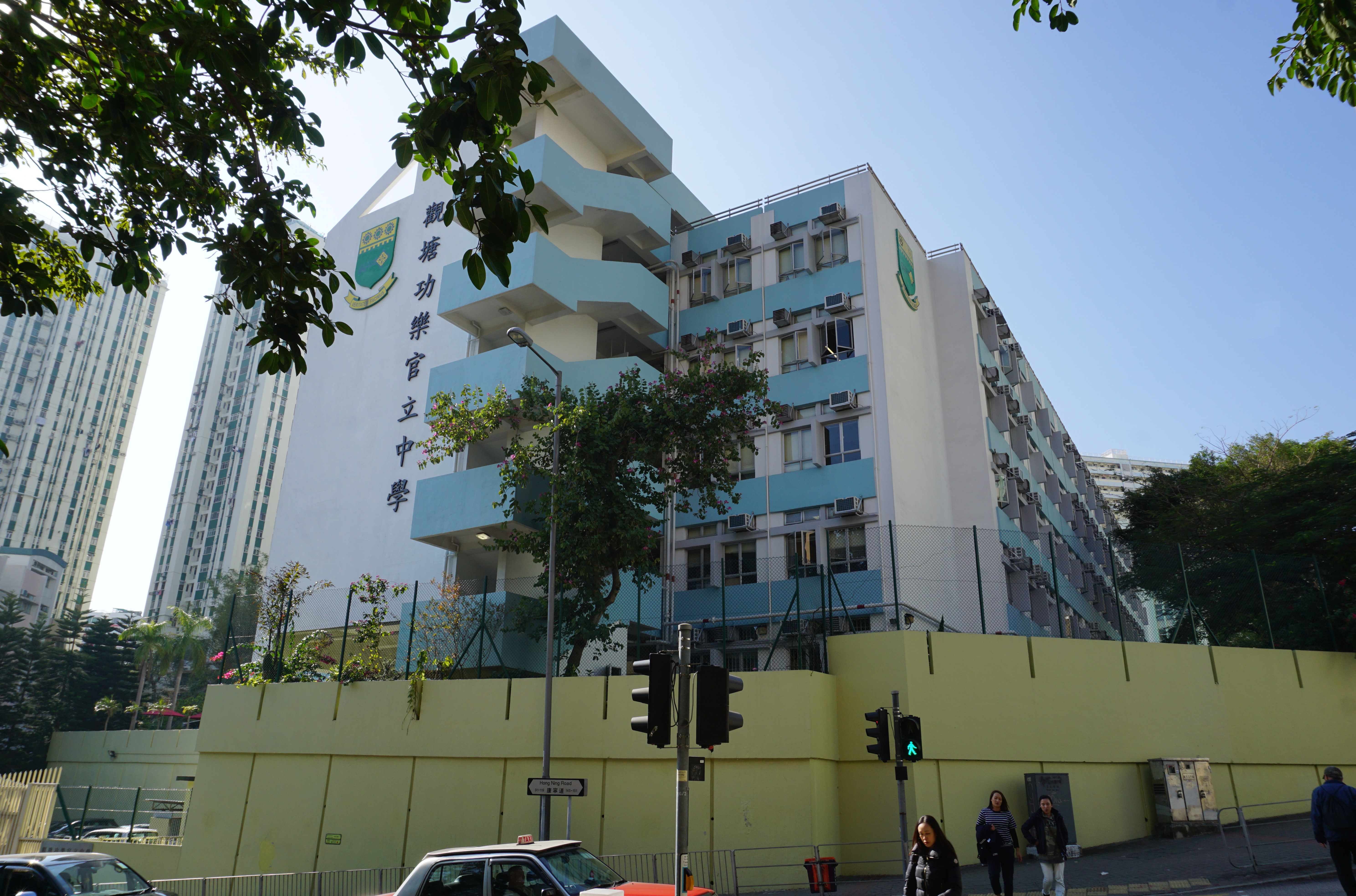 Kung Lok Government Secondary School in Kwun Tong, Hong Kong.